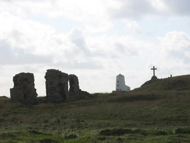 The Ruined Church, Lighthouse and Main Cross on Llanddwyn